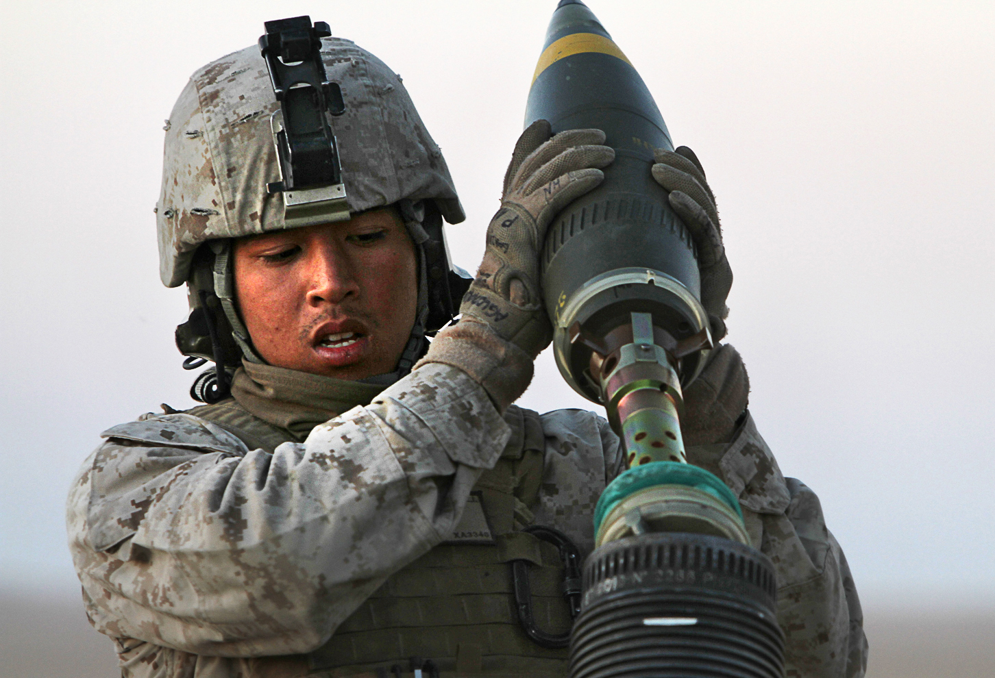 Battery K cannoneer crewman Cpl. Edwin Aguinaldo Jr. loads a 120mm mortar here Jan. 29 during field training. The battery provides artillery and indirect fire for Battalion Landing Team 3/1, the ground-combat element of the 11th Marine Expeditionary Unit. The unit is currently deployed as part of the Makin Island Amphibious Ready Group, a U.S. Central Command theater reserve force providing support for maritime security operations and theater security cooperation efforts here. Aguinaldo, 23, hails from Kapolei, Hawaii.